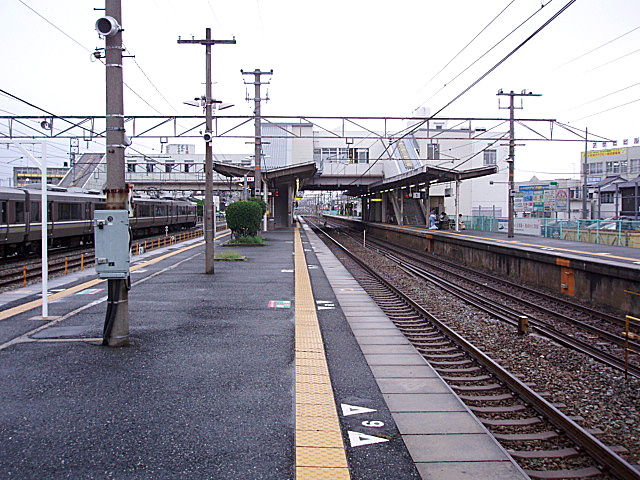 West Japan Railway Sanyo Main Line Aboshi Station Platform西日本旅客鉄道 山陽本線 網干駅駅ホーム